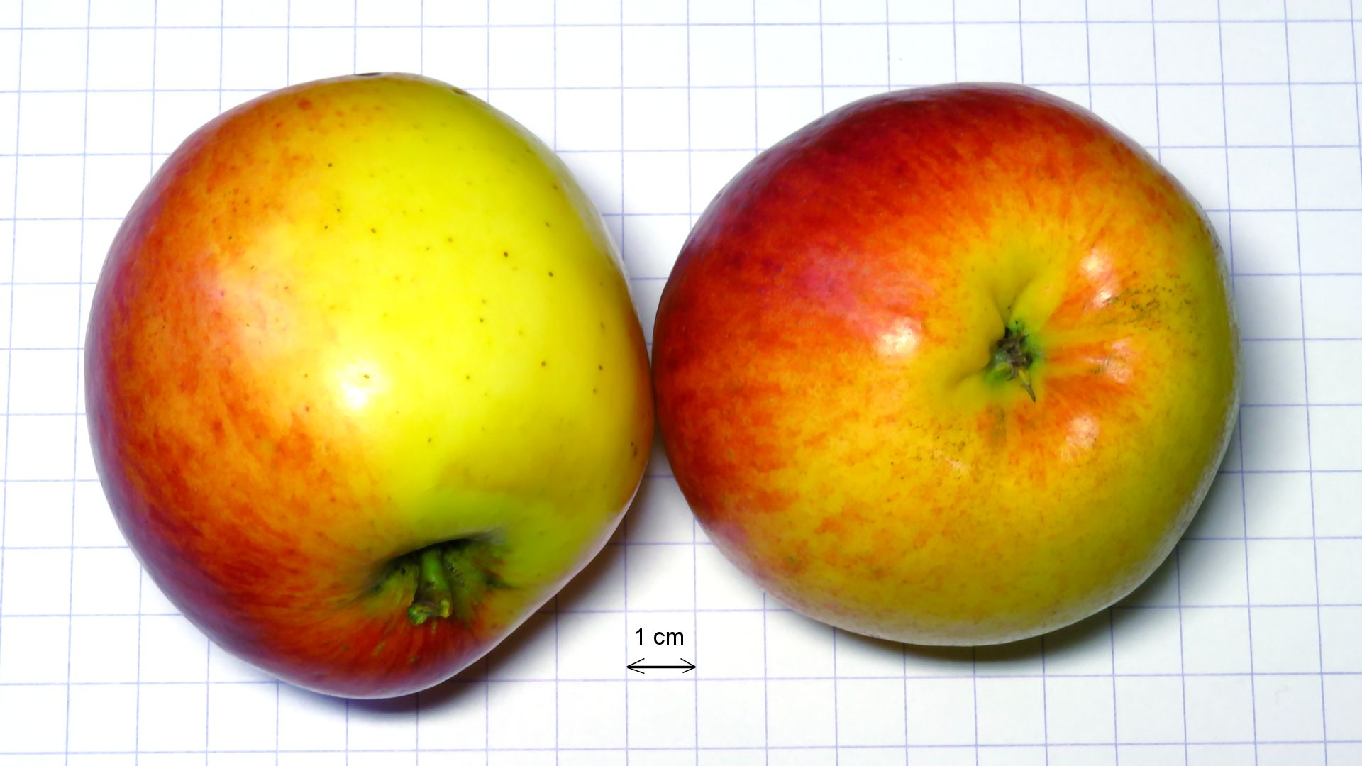 Malus REBELLA apples